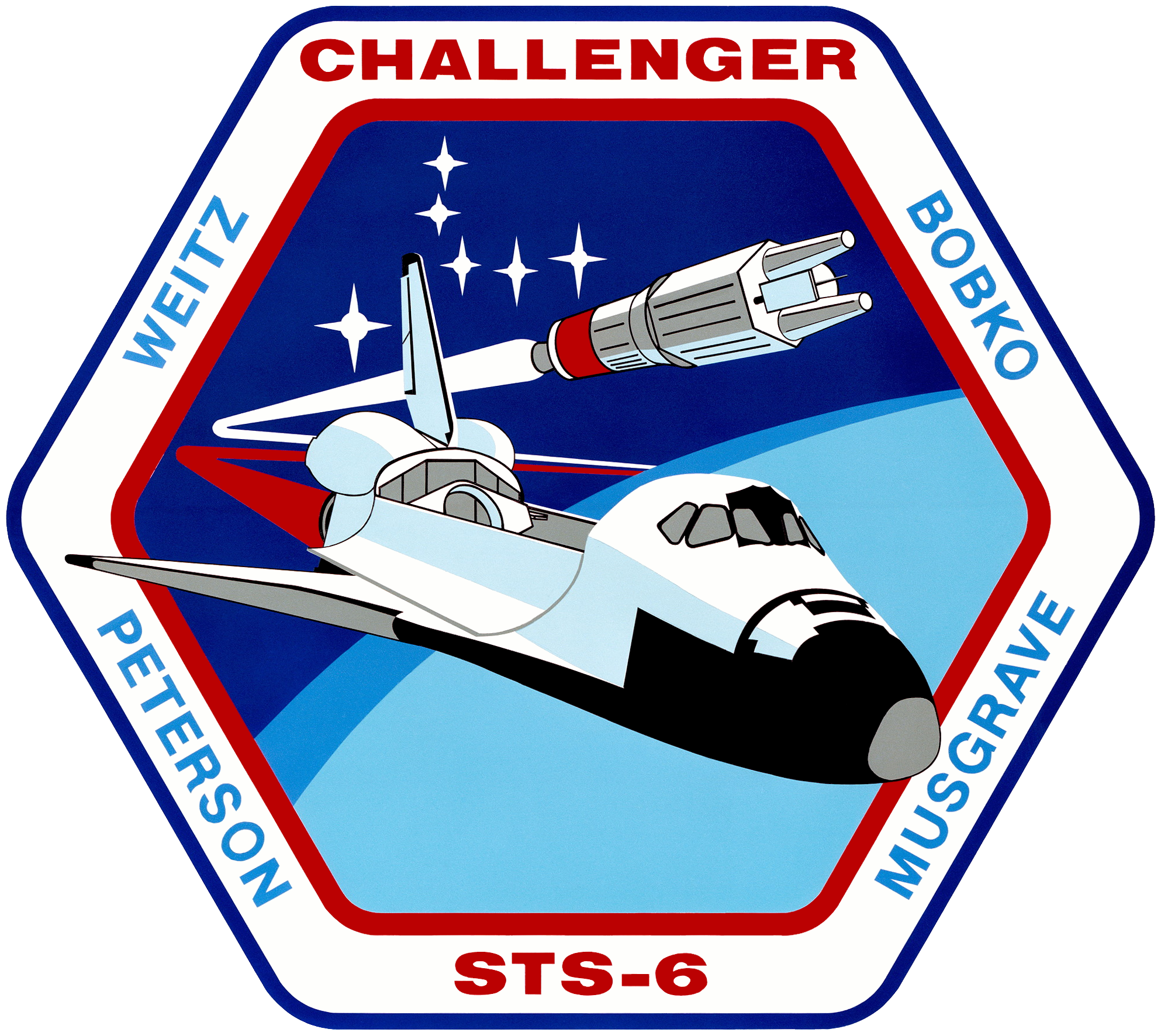 STS-6 Crew Insignia